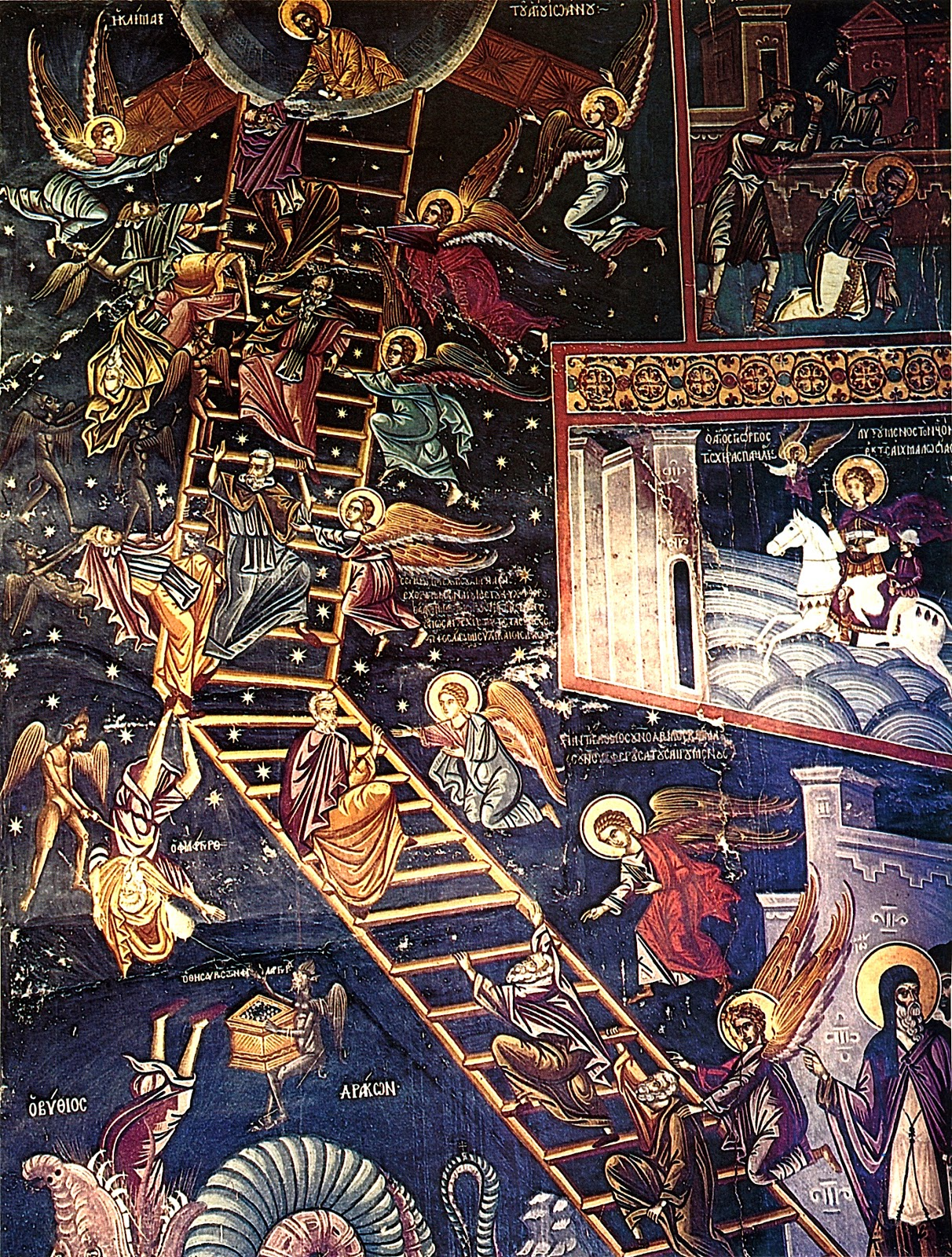 Dionysiou Monastery, The Ladder of Divine Ascent Fresco, 16th Century